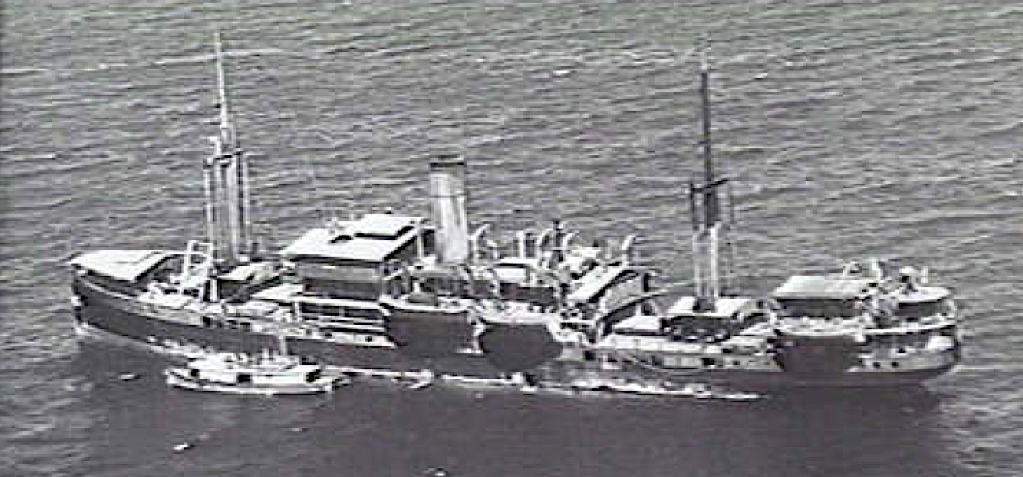 AWM caption : 1943-01-01. Aerial port side view of the Dutch cargo vessel SS Reijnst which as part of convoy MS.2A ferried Australian troops from Ratai Bay, Java, whence they had been brought by the large transport RMS Aquitania, to Singapore in 1942-01. On 1943-04-26 she was part of convoy GP.48 when it was attacked by a Japanese submarine off the northern New South Wales coast. She later took part in Operation Lilliput in New Guinea between 1942-12 and 1943-06. Note the 12 pounder AA gun on the stern.